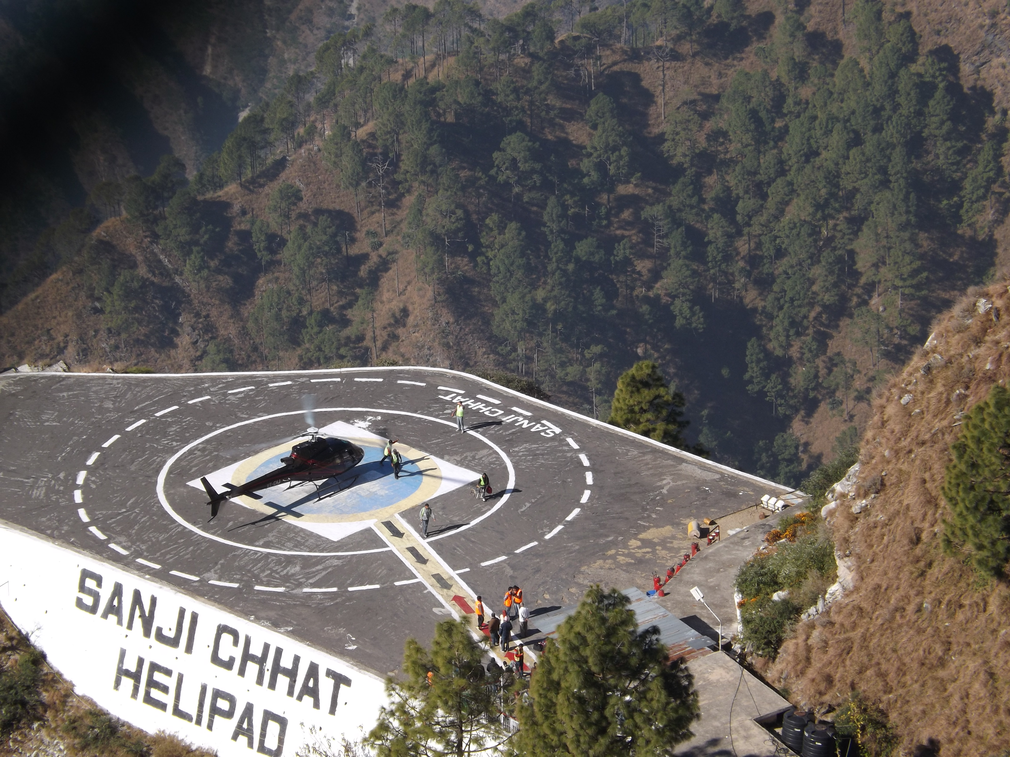 Sanji Chhat helipad vaishno devi, jammu, clicked from height more than 6000 feet from sea level